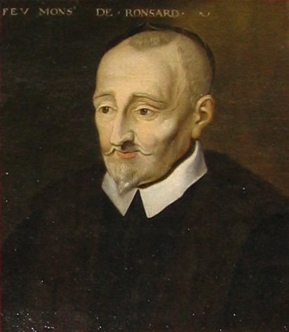 Portrait of Pierre de Ronsard, oil on canvas, Musée des Beaux-arts, Blois